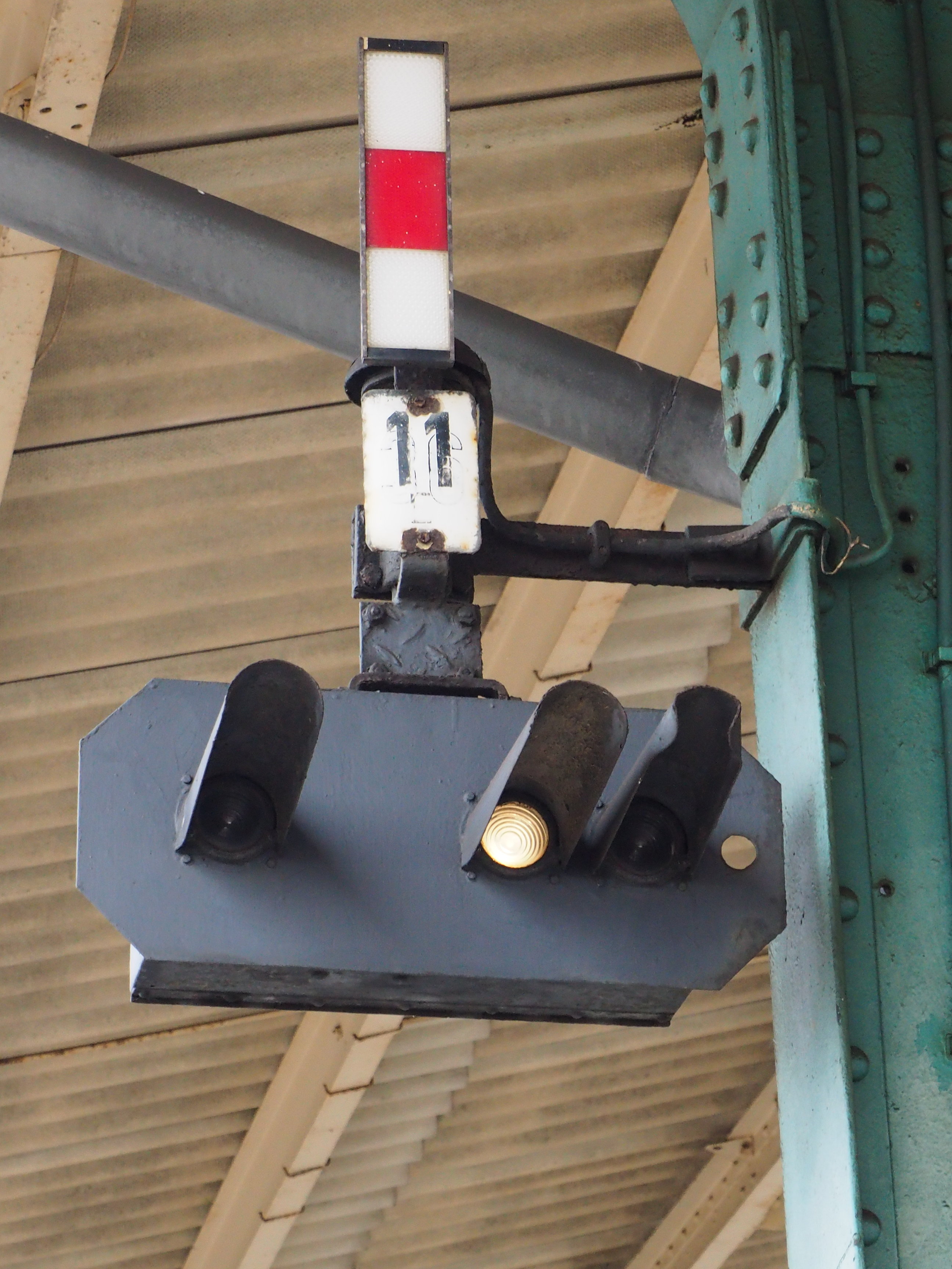 Platform track section signal in Kassel Hauptbahnhof, showing Kennlicht